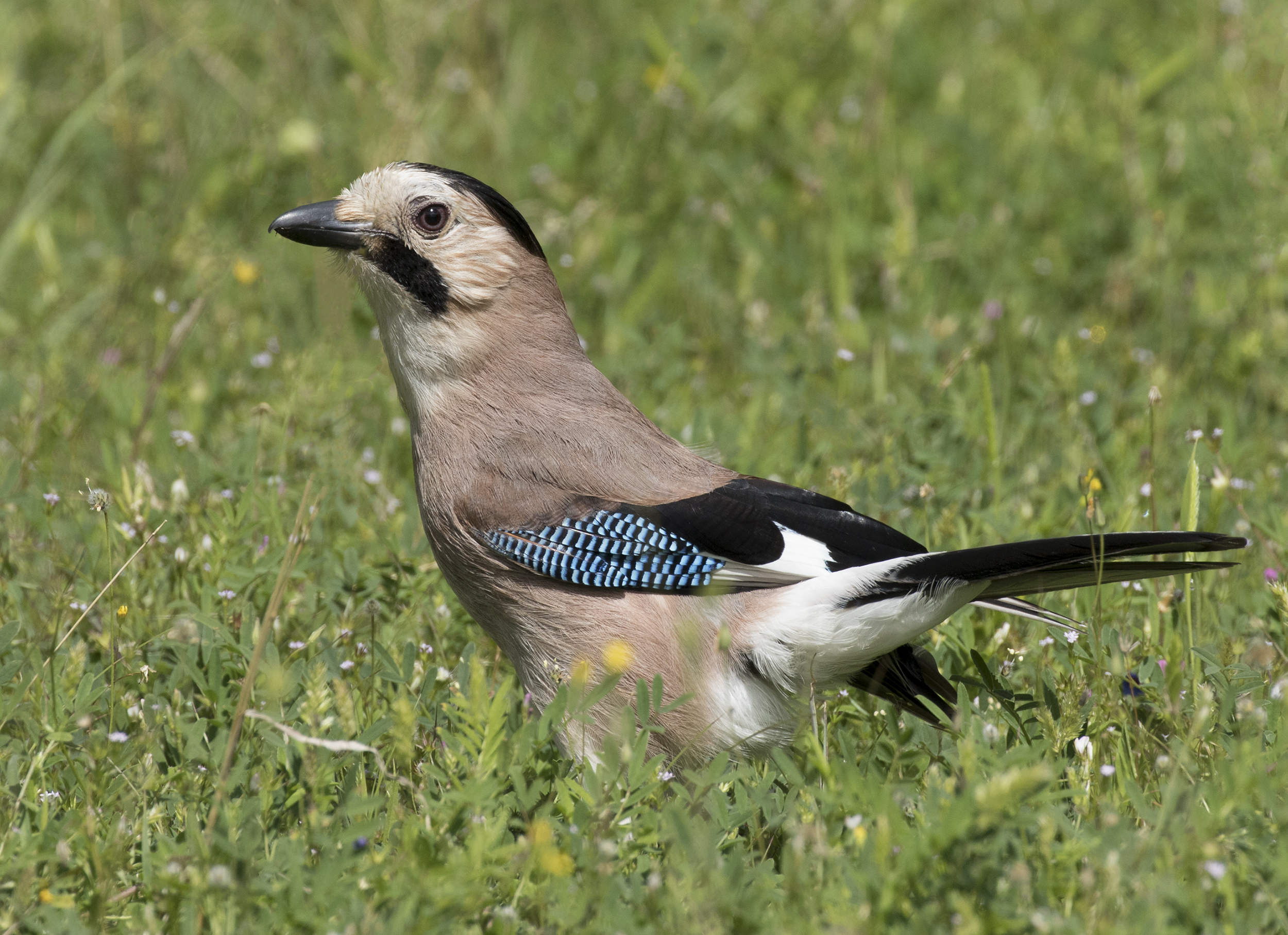 Eurasian Jay (Garrulus glandarius) in Balcalı - Sarıçam - Adana, Turkey.